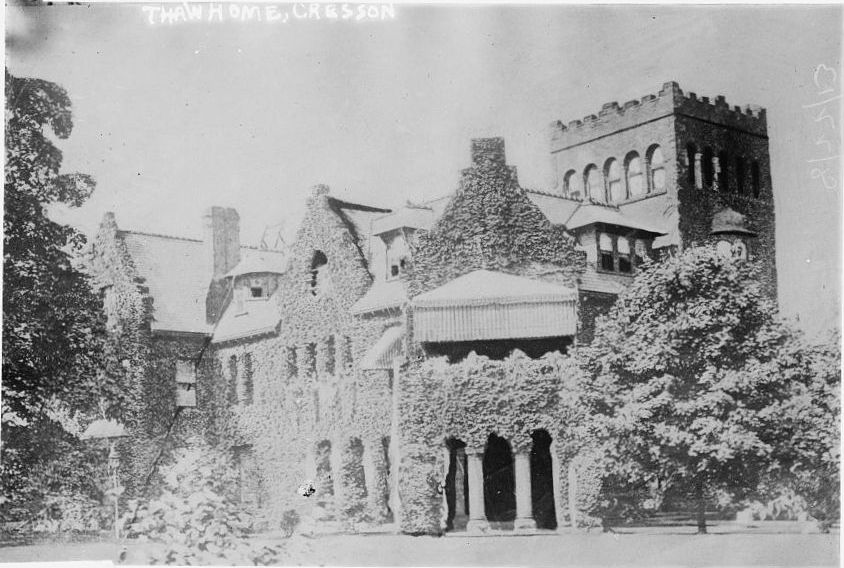 "Lyndhurst" (William & Mary C. Thaw mansion), 1165 Beechwood Boulevarde, Squirrel Hill, Pittsburgh, Pennsylvania (1887-89, demolished c. 1942), Theophilus Parsons Chandler, Jr., architect. (Glass negative probably misidentified as "Cresson", a neighborhood near Squirrel Hill.)